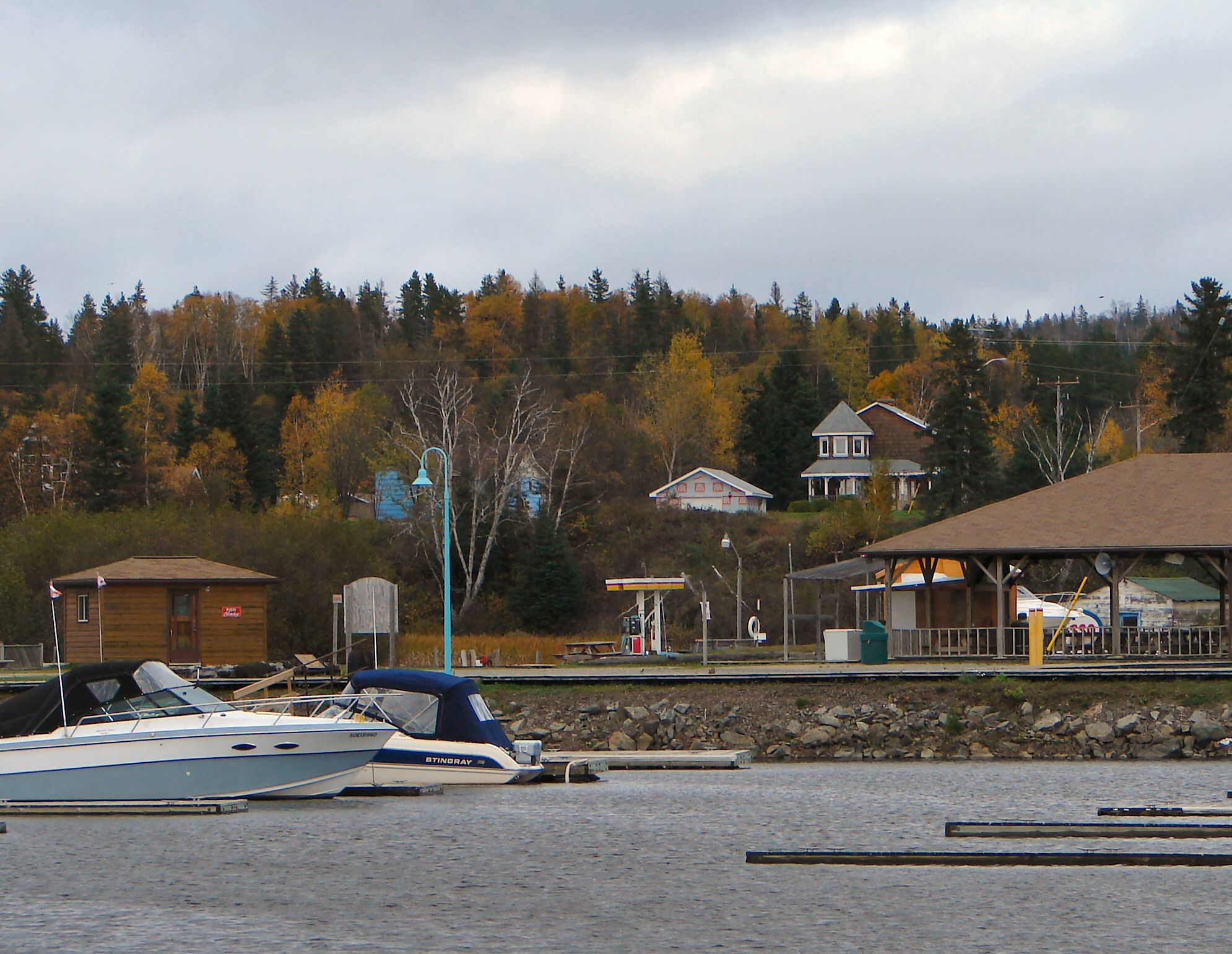 Michipicoten River Village, Municipality of Wawa (formerly Michipicoten Township), Ontario, Canada